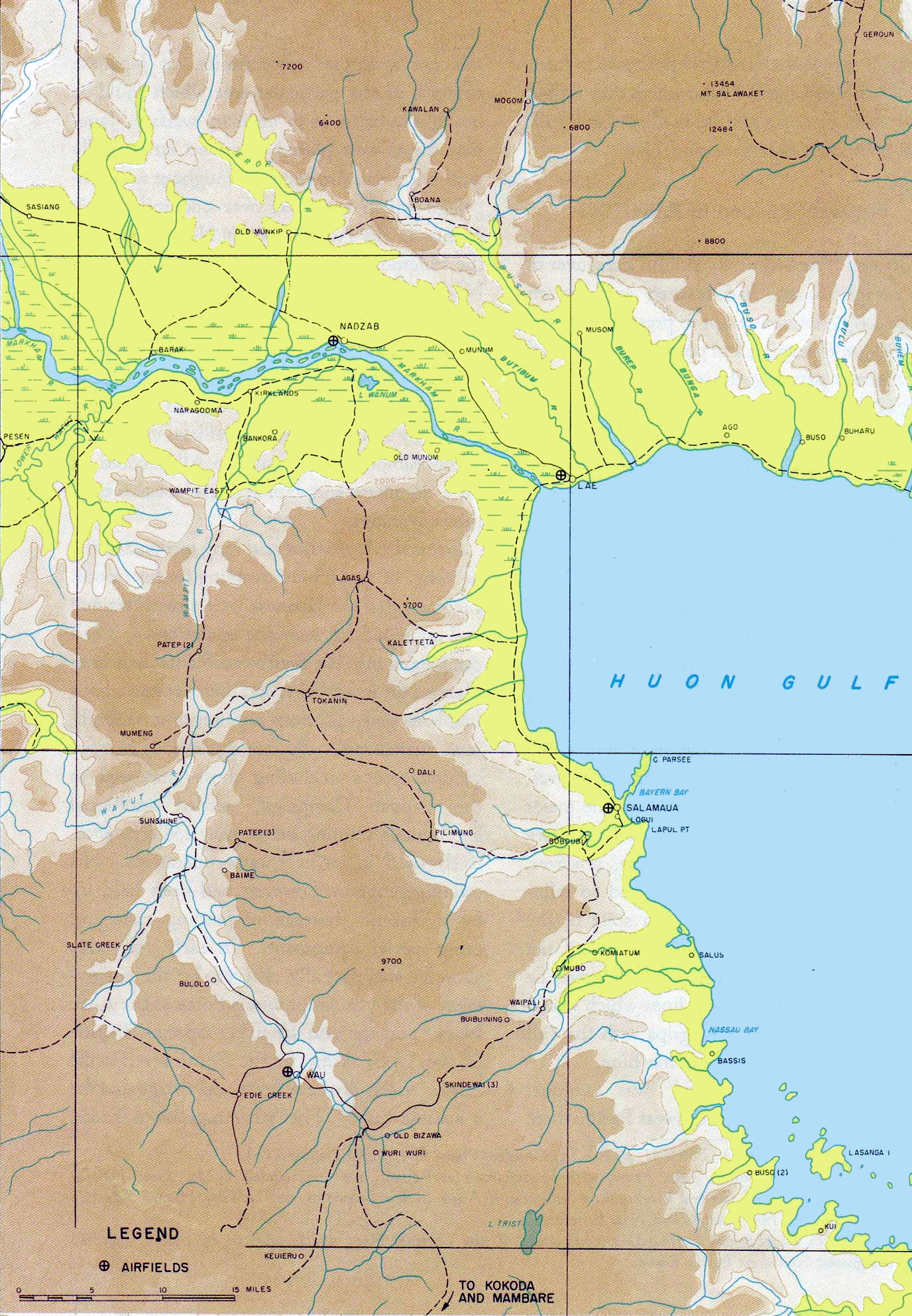 A U.S. military map of the area surrounding the towns of Salamaua And Lae, New Guinea